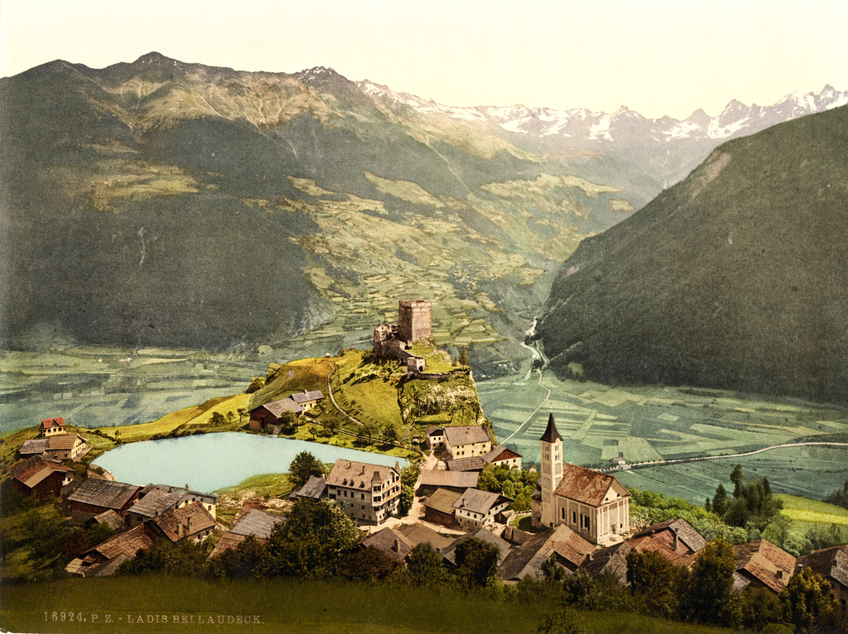 16924 P.Z. Ladis bei Laudeck. Photochrom print by Photoglob Zürich, between 1890 and 1900. From the Photochrom Prints Collection at the Library of Congress More photochroms from Austria-Hungary | More photochrom prints [PD] This picture is in the public domain